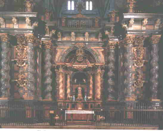 Transcoro